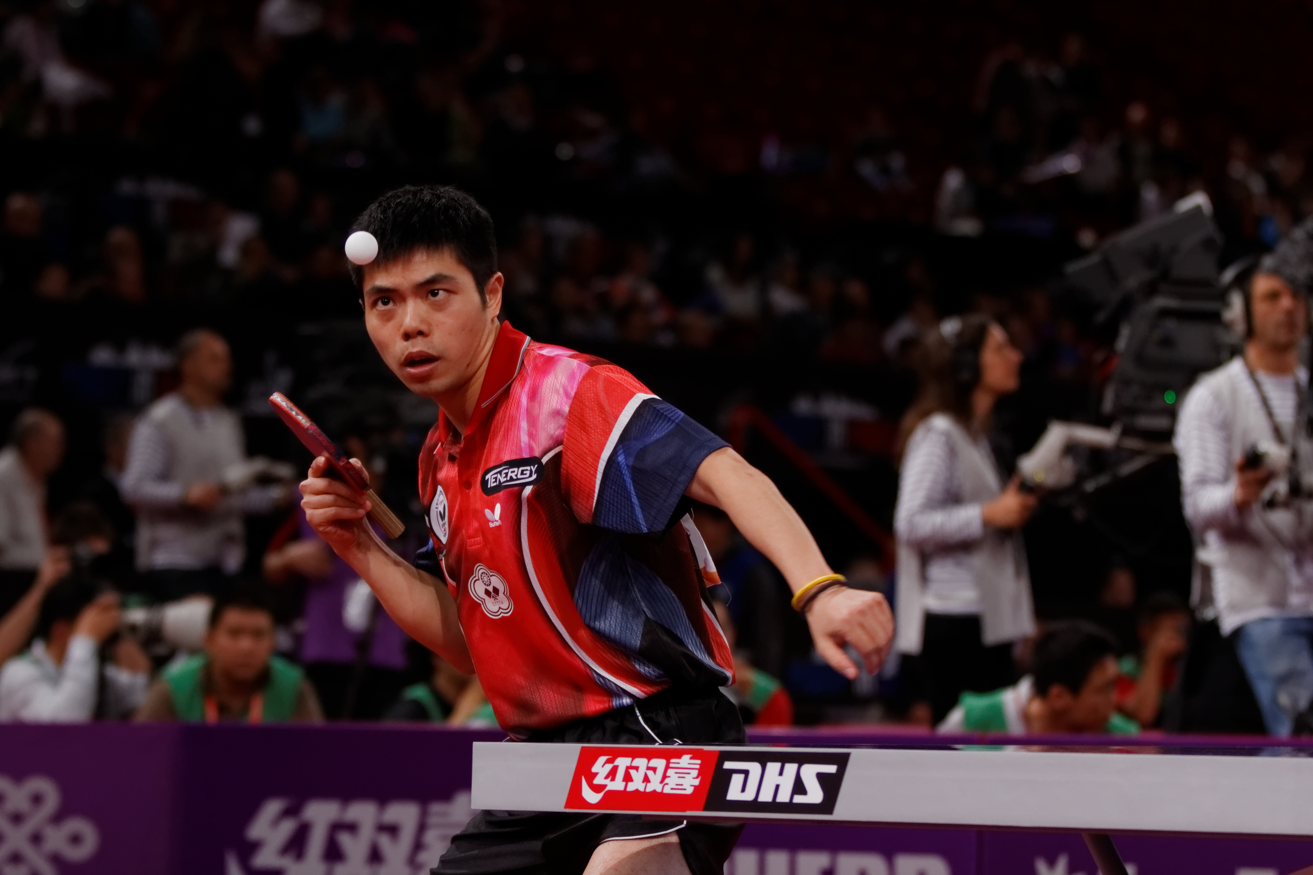 2013 World Table Tennis Championships, Paris. Men's Doubles Semifinals. Wang Liqin - Zhou Yu vs Chen Chien-an - Chuan Chih-yuan.